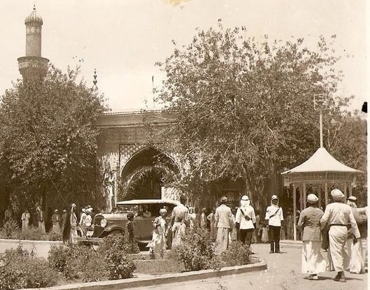 abu-Hanifa Mosque, Baghdad 1935